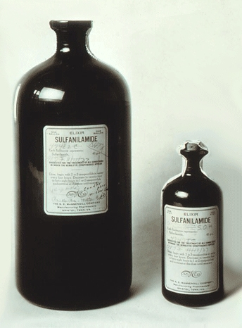 Photograph of Elixir Sulfanilamide bottles